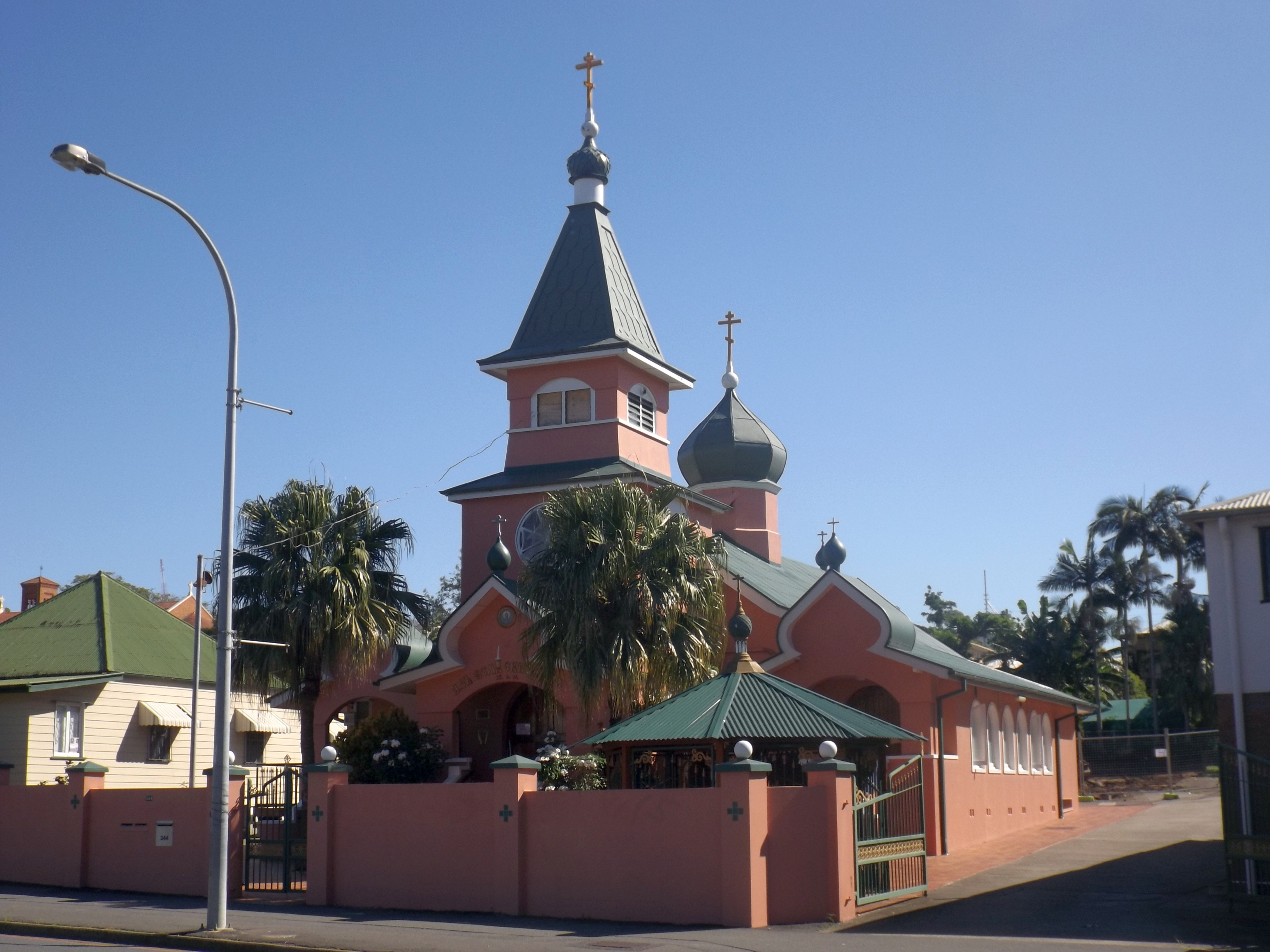 Photo of St Nicholas Russian Orthodox Cathedral at Kangaroo Point, Brisbane, Queensland, Australia.